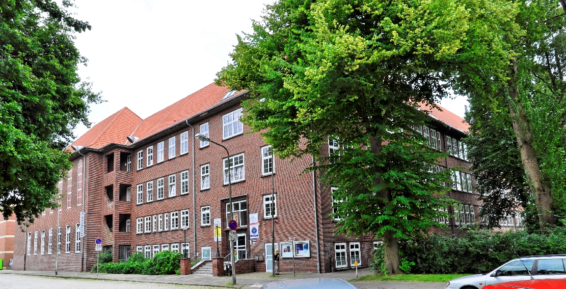 Rathaus Cuxhaven 2015